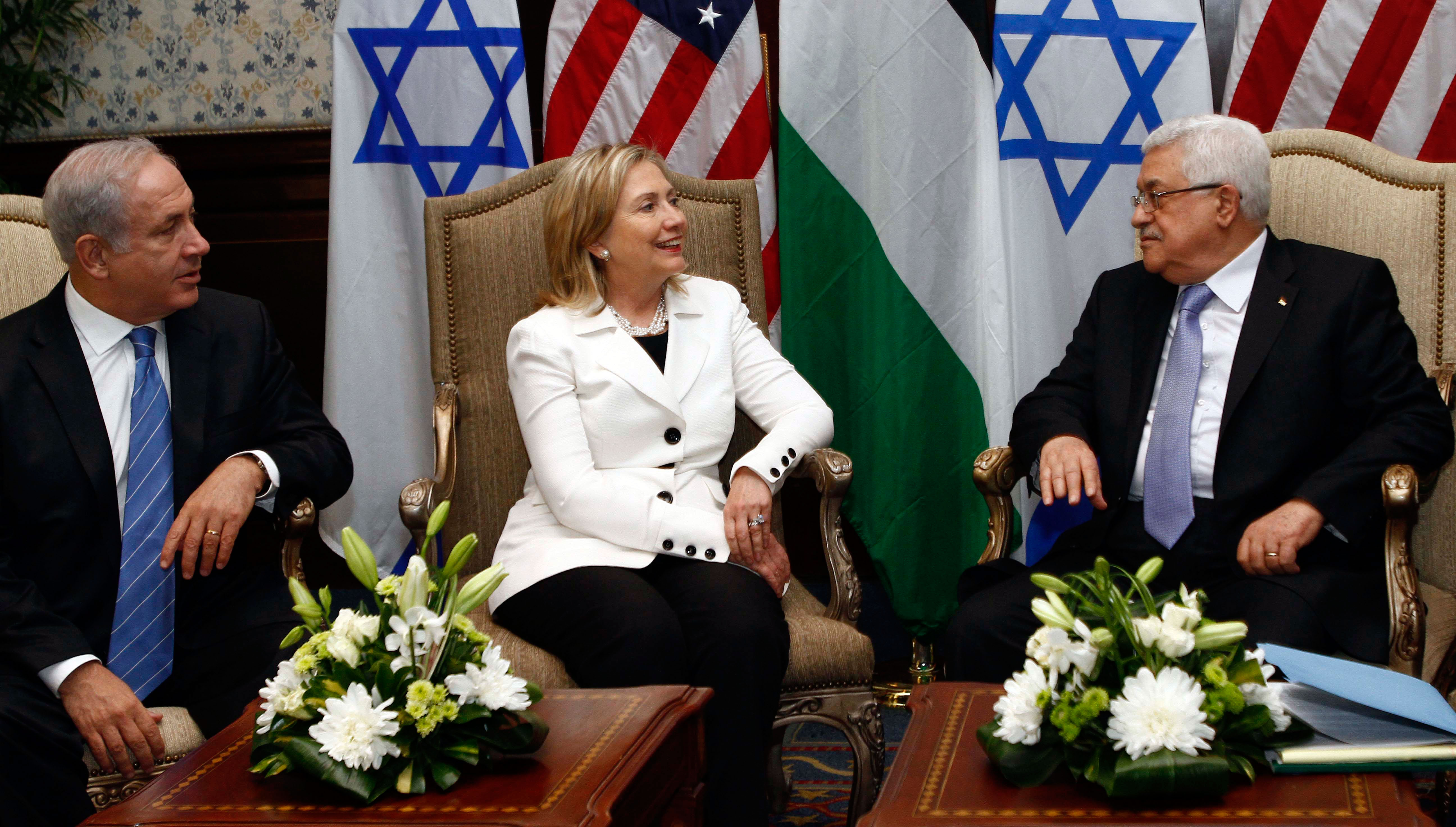 U.S. Secretary of State Hillary Rodham Clinton (center) hosts direct talks between Palestinian President Mahmoud Abbas (right) and Israeli Prime Minister Benjamin Netanyahu (left) in Sharm El Sheikh, Egypt, on September 14, 2010. [State Department photo/ Public Domain]